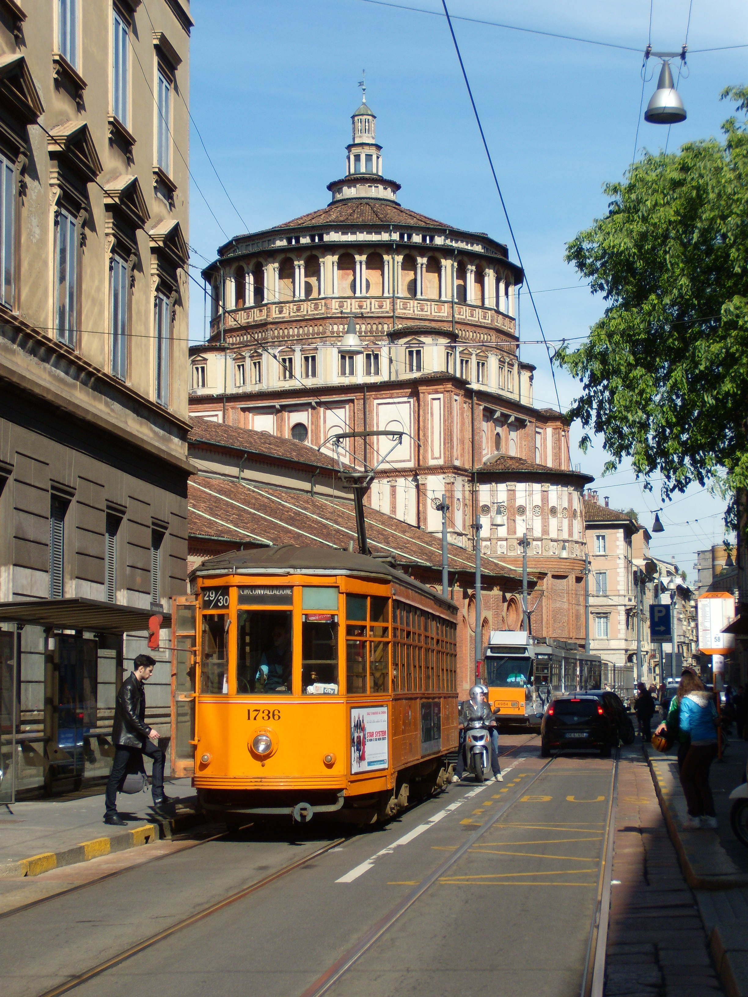 1736 in corso Magenta